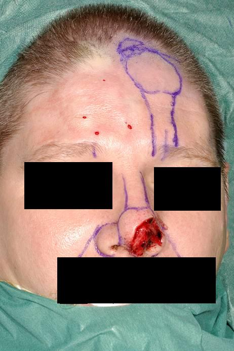 The design of the flap before stage one